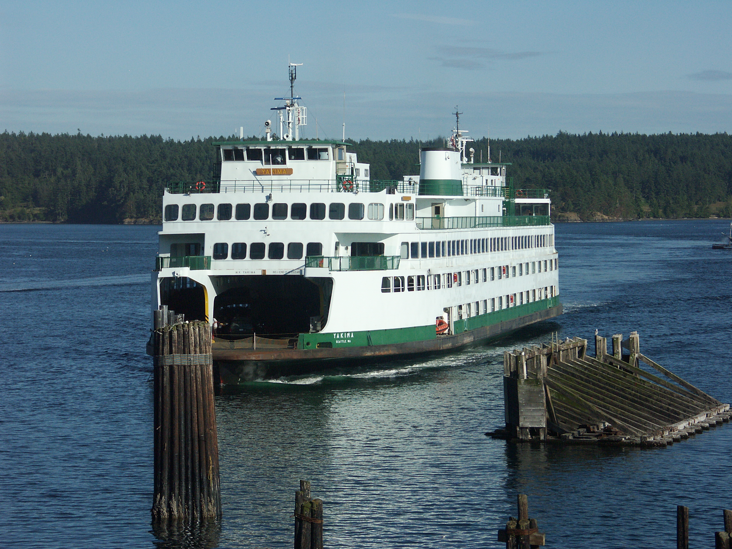 M/V Yakima arriving at Orcas Island Ferry Terminal 6/30/2005.